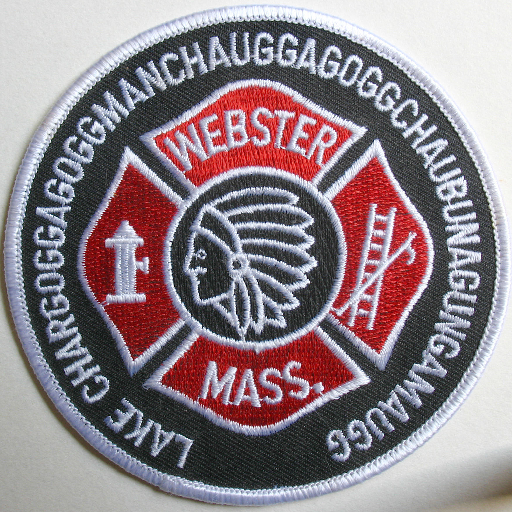 Lake Chargoggagoggmanchauggagoggchaubunagungamaugg, my dogg! I got this off ebay because it was so re-donk, and also only like a dollar or something. Translation: "English knifemen and Nipmuck Indians at the boundary or neutral fishing place."